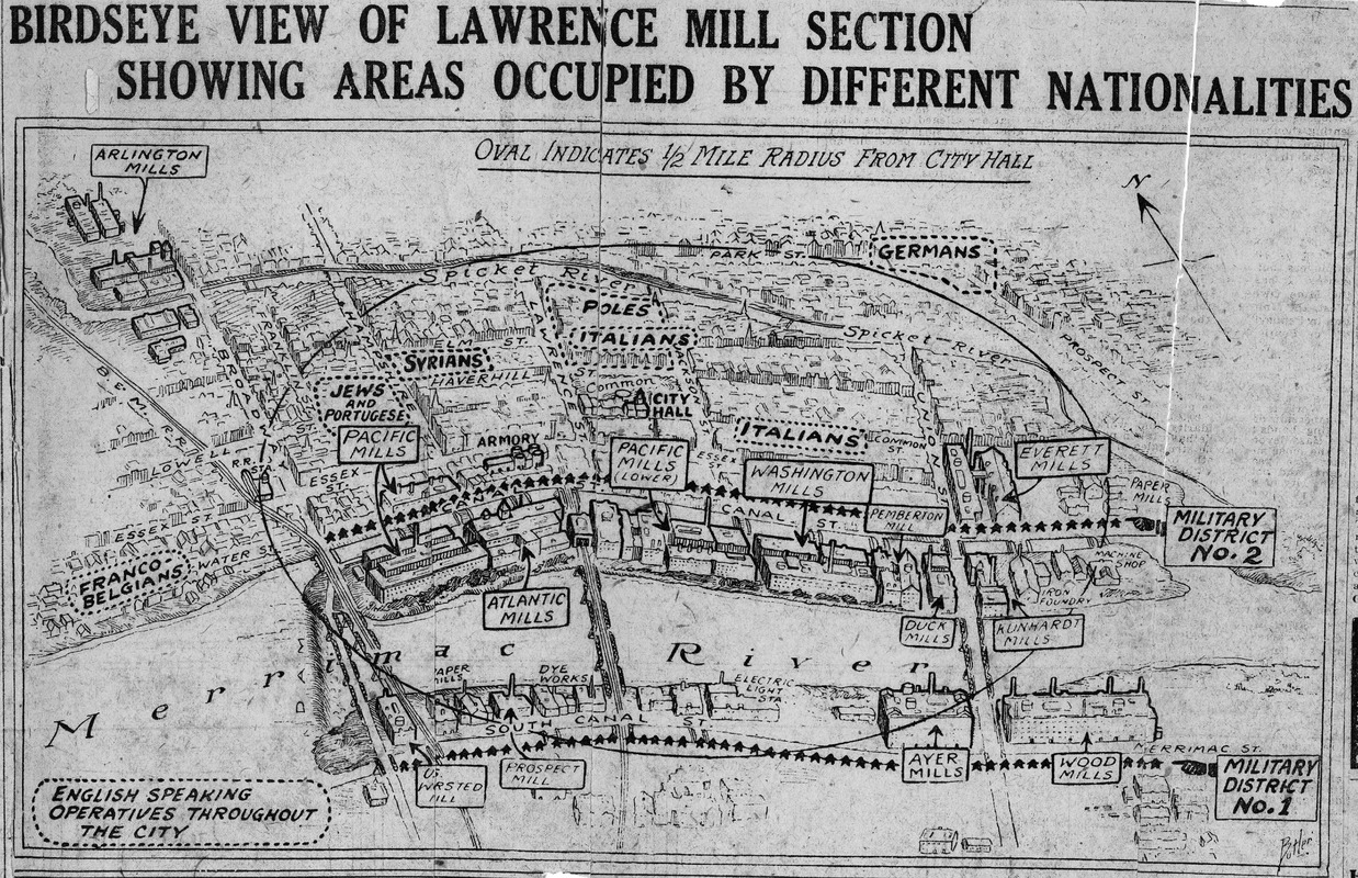 Birdseye view of Lawrence mill section showing areas occupied by different nationalities in 1910.